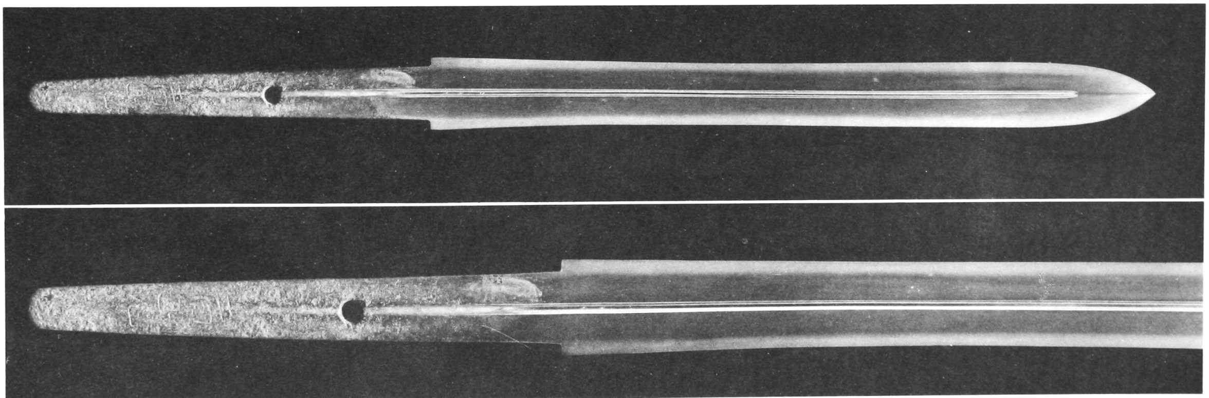 Tsurugi Tōshirō Yoshimitsu The blade was part of the dowry of the adopted daughter (Seitaiin) of Tokugawa Iemitsu on her wedding with Maeda Mitsutaka; one year after Seitaiin's death, her son, Maeda Tsunanori offered the blade to the Shirayamahime Shrine praying for her happiness in the next life; width: 2.2 cm (0.87 in),Kamakura period, 34.8 cm (13.7 in) Ishikawa Hakusan Shirayamahime Shrine, lent to Ishikawa Prefecture Art Museum